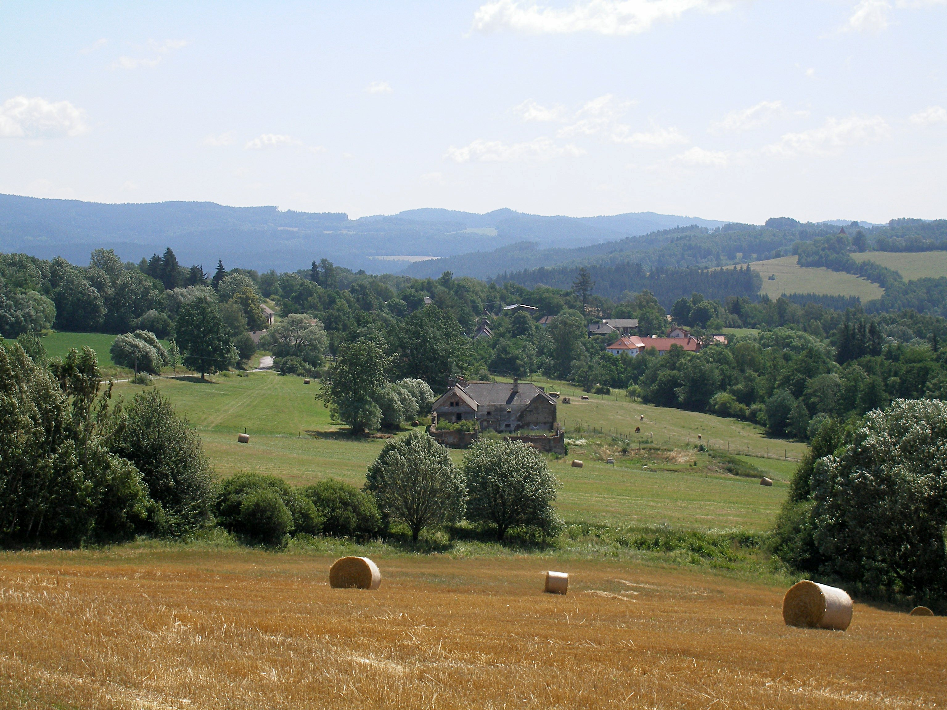 Suš - the general view from the west